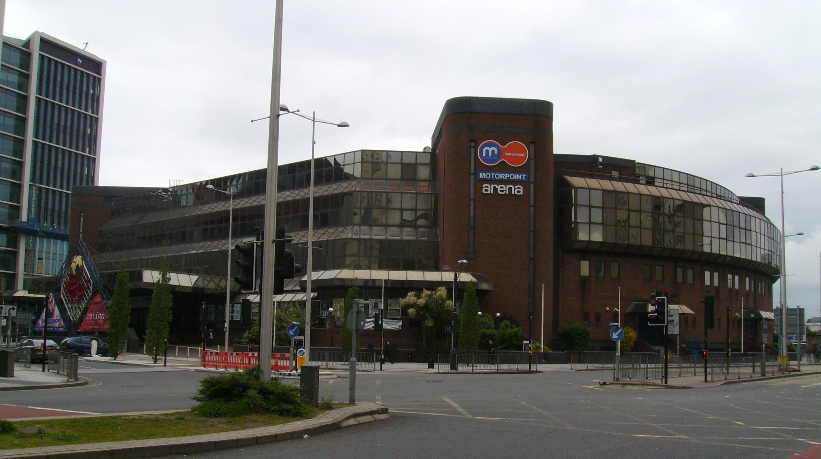 Motorpoint Arena Cardiff, Cardiff, Wales